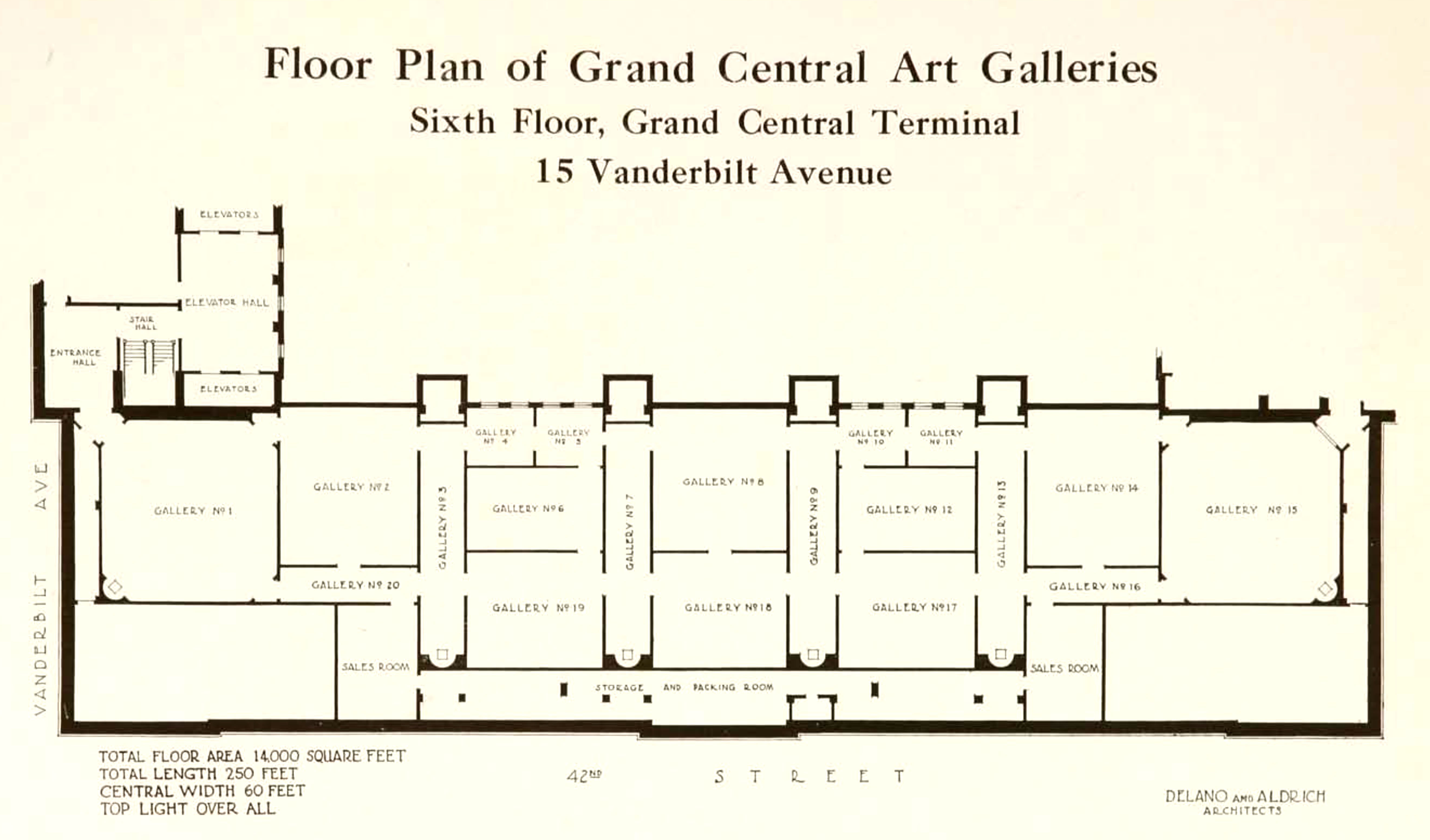 Floor plan of the Grand Central Art Galleries, New York, New York, from the Galleries' 1923 opening exhibition catalog